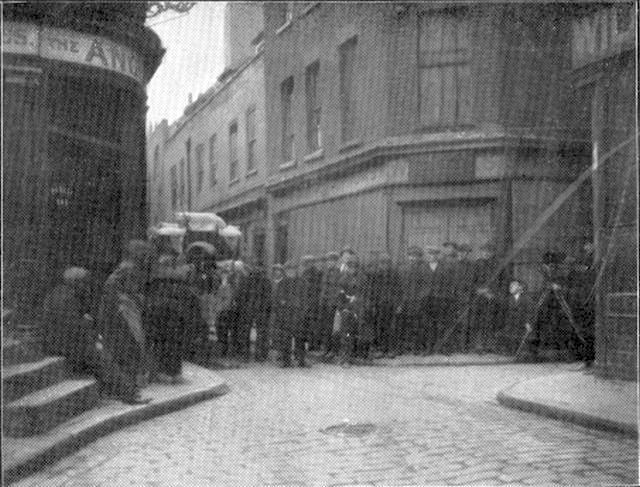 In the rare 1922 photo below, that's Alfred Hitchcock (with moustache?) squatting beside the camera and gesturing across the road at actress Clare Greet. The occasion was the filming of Number Thirteen (aka Mrs Peabody) on location outside the public house, "The Angel", in Rotherhithe, London. The film was never finished. According to a caption, the director, Hitchcock, had two assistant directors, A.W. Barnes and Norman Arnold. Cameraman was Joe Rosenthal.